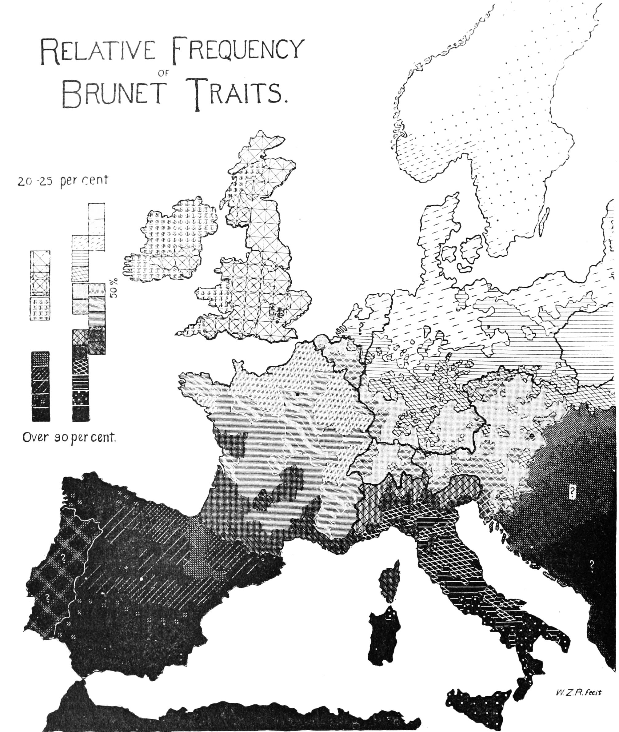 Hair color frequency in Europe